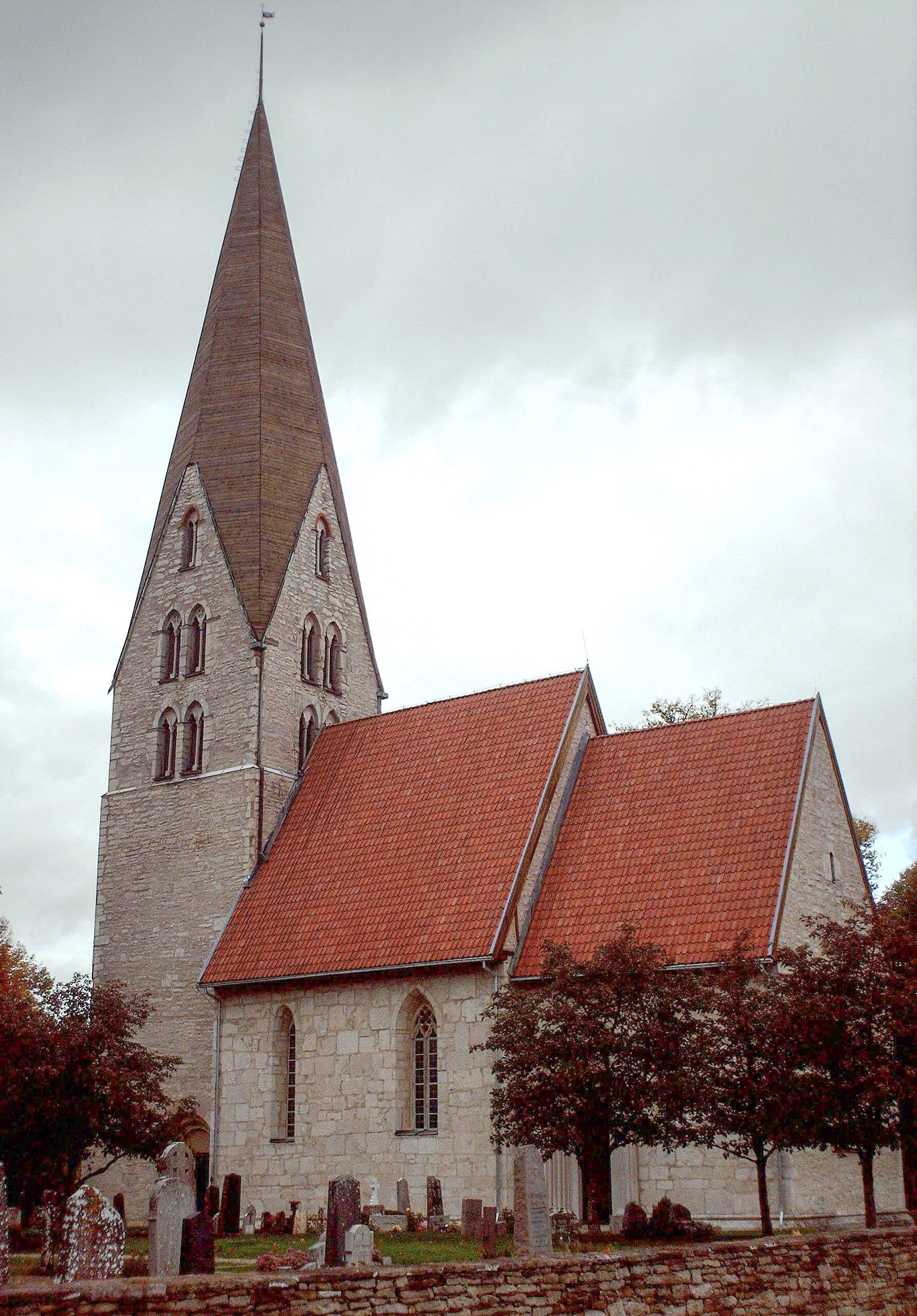 Klinte Church, Gotland Sweden